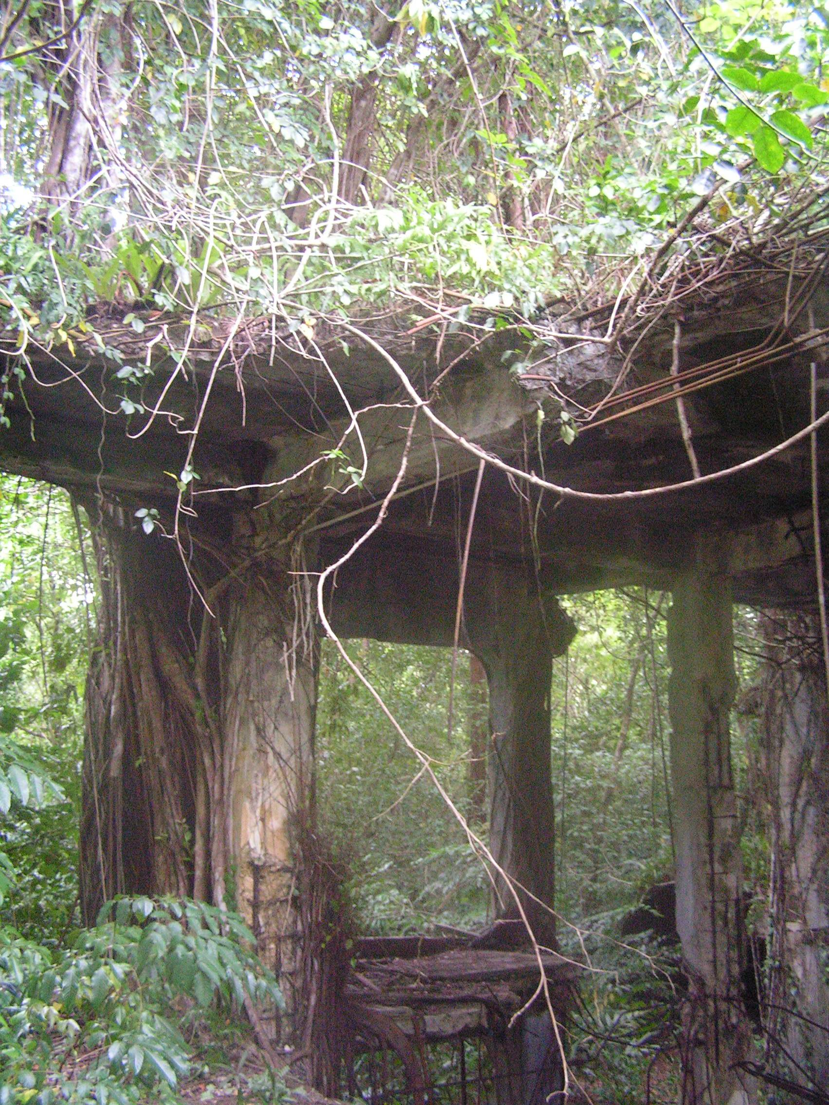 Ruins of a Japanese bunker on Peleliu.